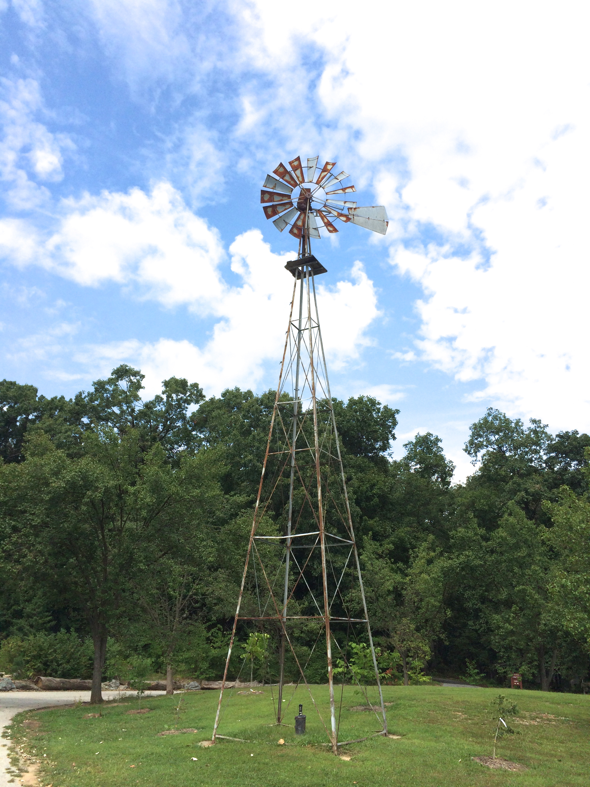 Windmill at Hashawha/Bear Branch, Carroll County, Maryland, known as the Hashawha Tower.